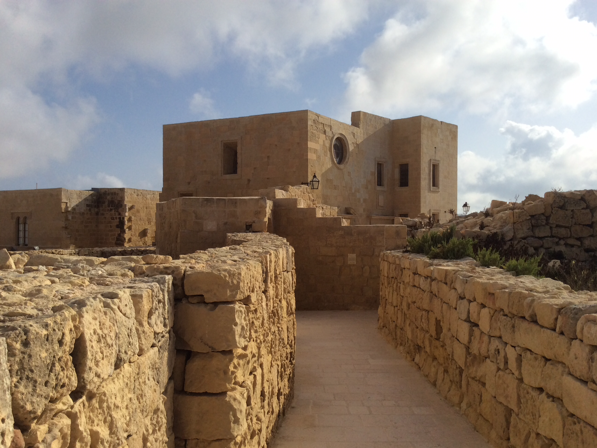 Cagliares Palace This media is about Maltese cultural property with inventory number 01238.